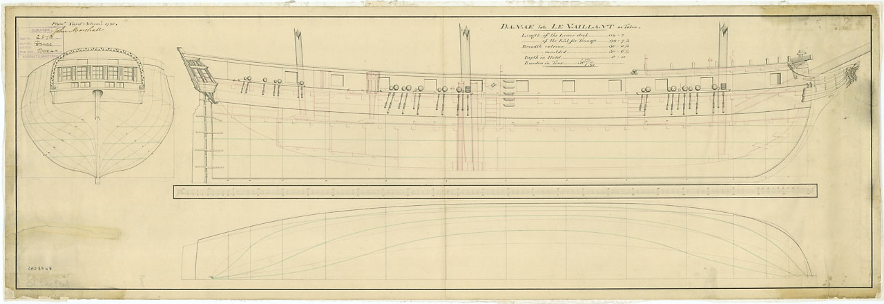 DANAE 1798 lines & profile